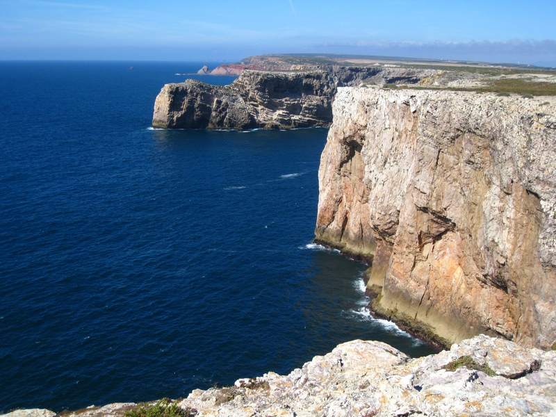 View from Cape St. Vincento on south Portugal coast.